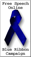 A banner produced for the Electronic Frontier Foundation's Blue Ribbon Campaign